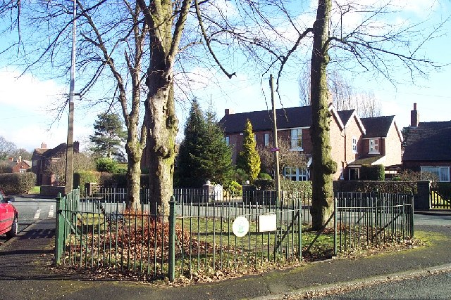 The Smallest Park in Britain. Prince's Park, Burntwood was opened in 1863 to commemorate the marriage of Prince Albert Edward, the Duke of Wales, to Princess Alexandra of Denmark. It is officially the smallest park in Great Britain. There is a bench inside where you can sit and watch the traffic!